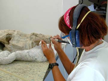 Paleontologist preparing the skull of a Hagarman Horse, Equus simplicidens - formerly called Plesippus shoshonensis, in Hagerman Fossil Beds National Monument, Idaho, USA